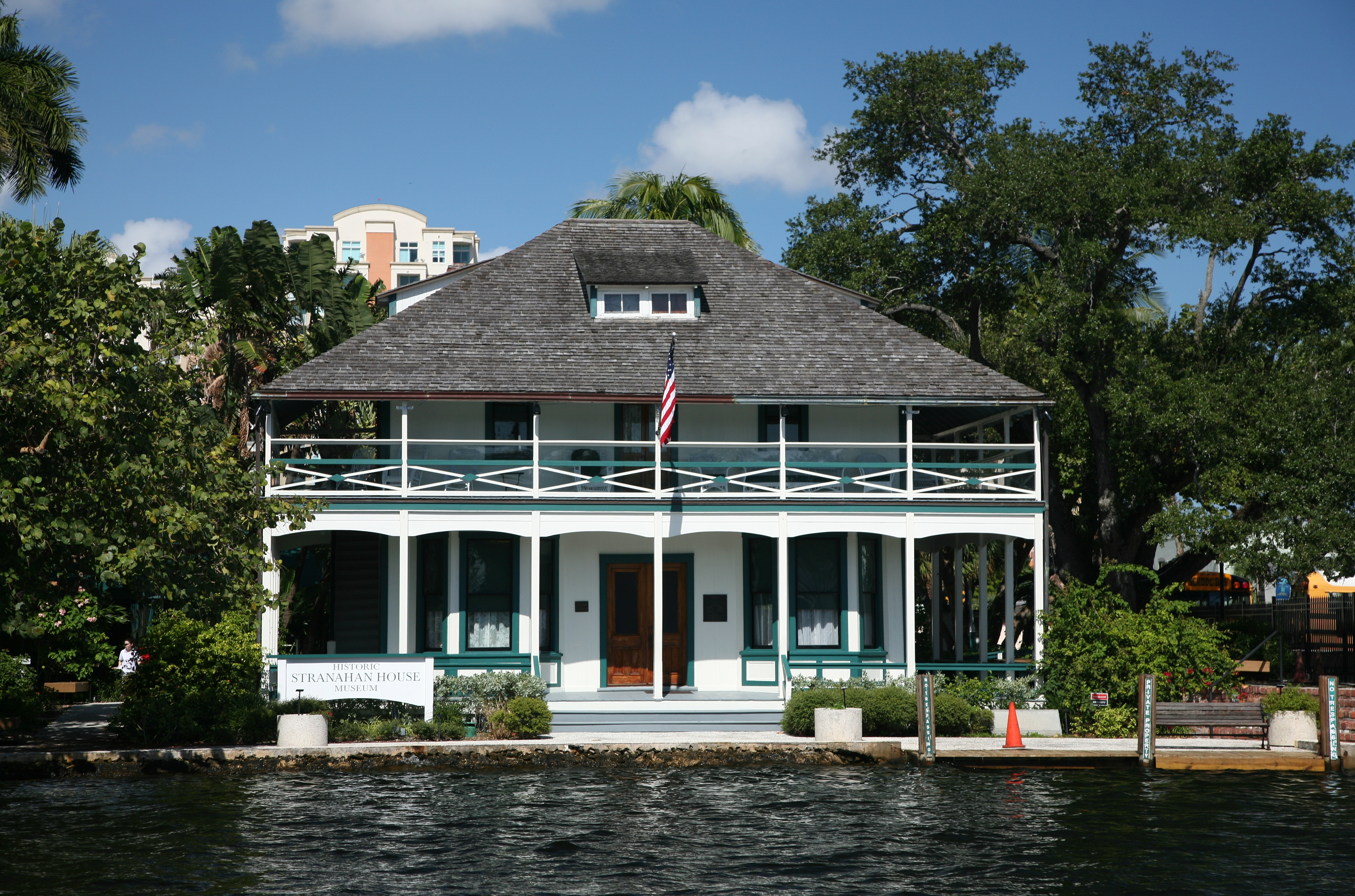 Stranahan House, Ft. Lauderdale, Florida